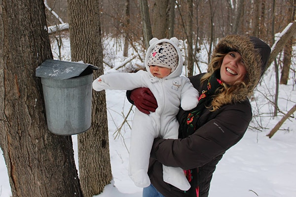 Enjoying the maple sugaring event